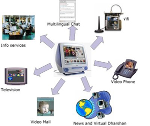 This picture shows the Electronic Media